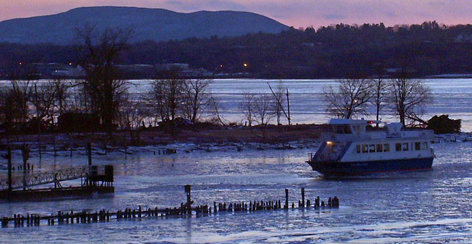 Photographed by Daniel Case from the overpass at the Beacon Metro-North station 2007-02-05